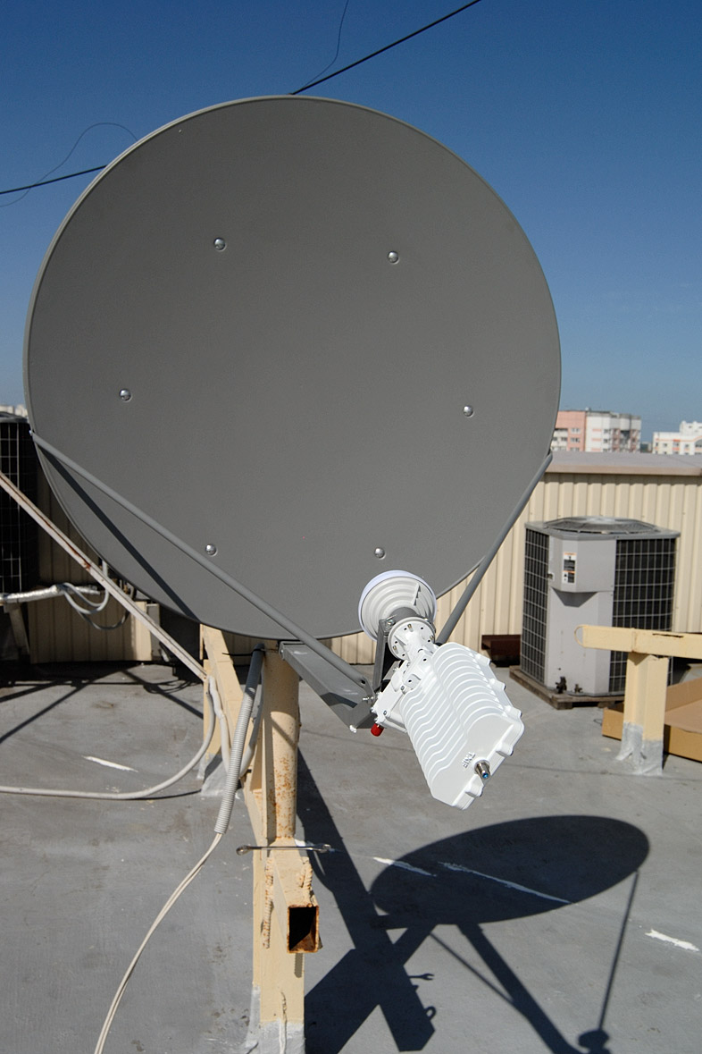 VSAT Satellite Internet.